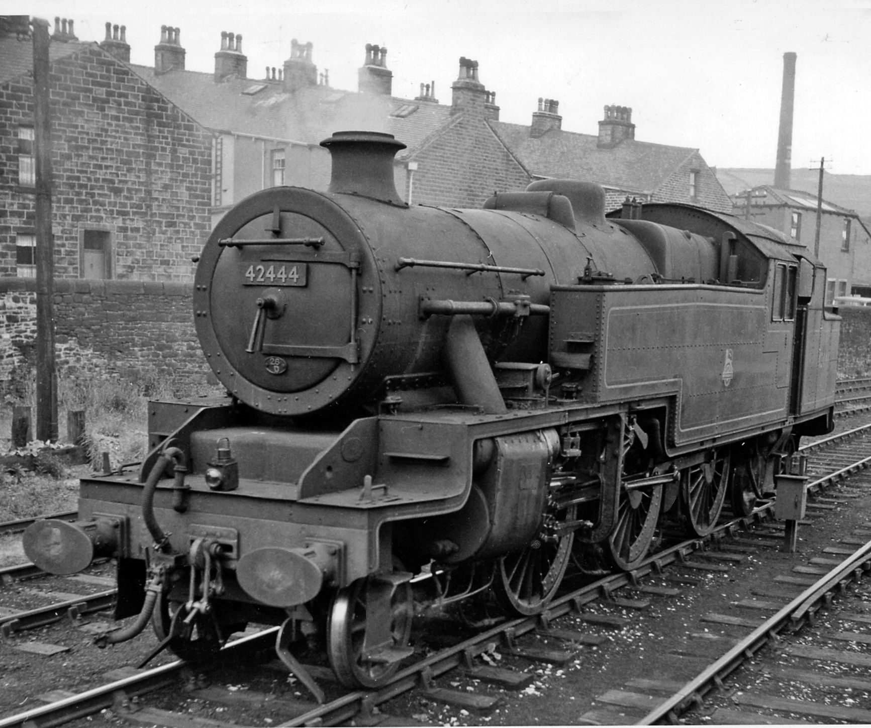 Stanier 4MT 2-6-4T at Bacup station. Standing in typical surroundings, LMS Stanier 4MT 2-6-4T No. 42444 (built 1937, withdrawn 5/64) is engaged in working the service from Manchester Victoria via Bury. A service from Rochdale had operated until 1947 (goods 1963): the line from Rawtenstall was closed on 3/12/66, back to Bury on 3/6/72.